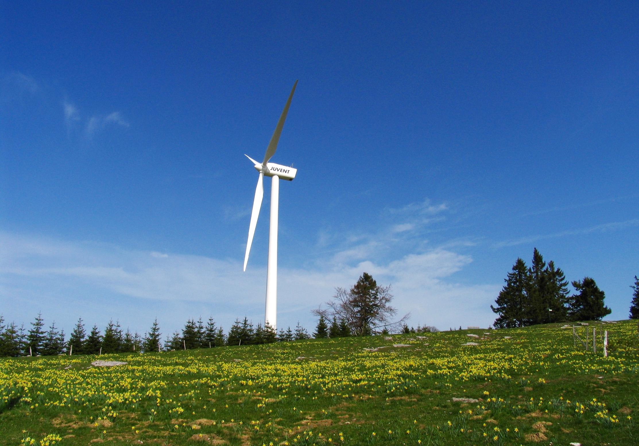 Windmill in the Mont Soleil area, near St Imier, Switzerland